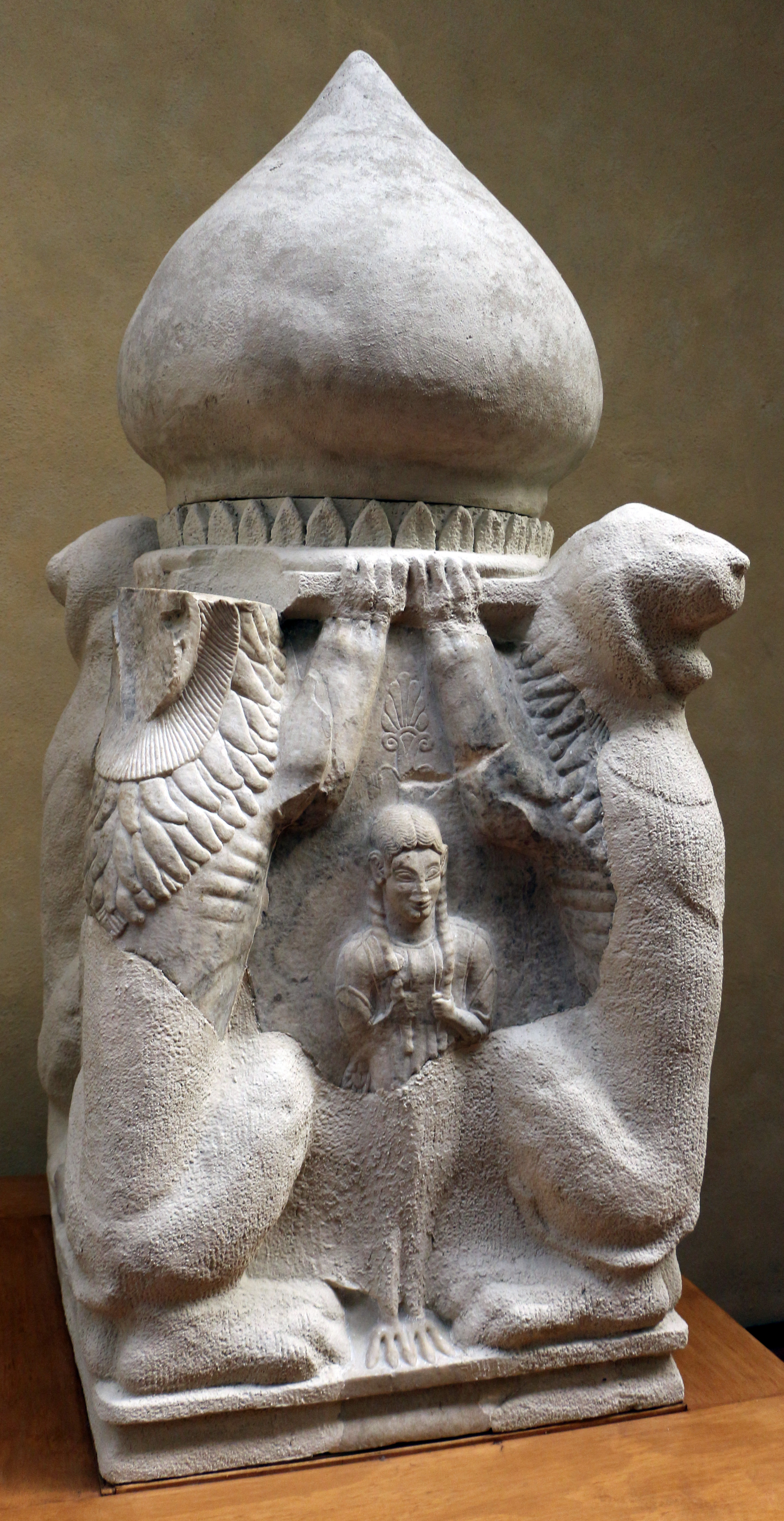 Etruscan sculptures in the Museo archeologico nazionale (Florence)